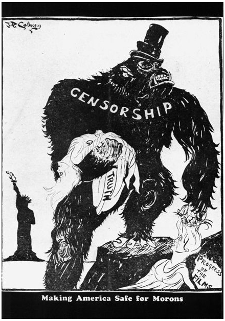 This is an anti-censorship cartoon which appeared in The Film Mercury magazine circa 1926. The magazine and its contents are in the public domain.